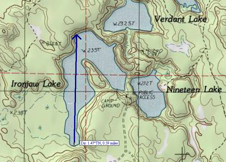 A cropped portion of the USGS Corner Lake quadrangle topo map. 1982 version; current: 1985